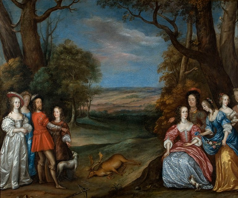 The Carlile Family with Sir Justinian Isham in Richmond Park by Joan Palmer Carlile, 1650s, oil on canvas, 61 x 74 cm., Lamport Hall, accession no. 95